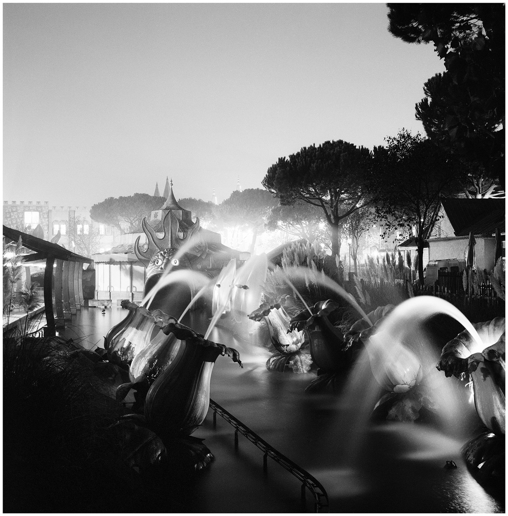 Fiabilandia